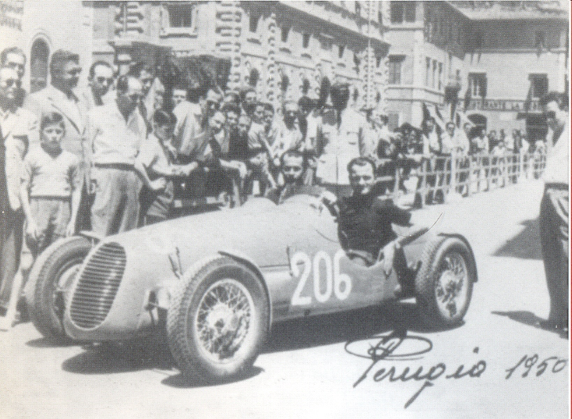 Bandini 1100 1950 in Perugia